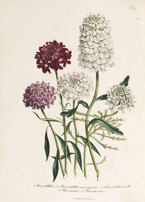 'The Ladies' Flower-Garden of Ornamental Annuals' 1. Iberis umbellata 2. Iberis umbellata var. sanguinea 3. Iberis umbellata var. alba 4. Iberis pinnata 5. Iberis coronaria Published by William Smith London 1842